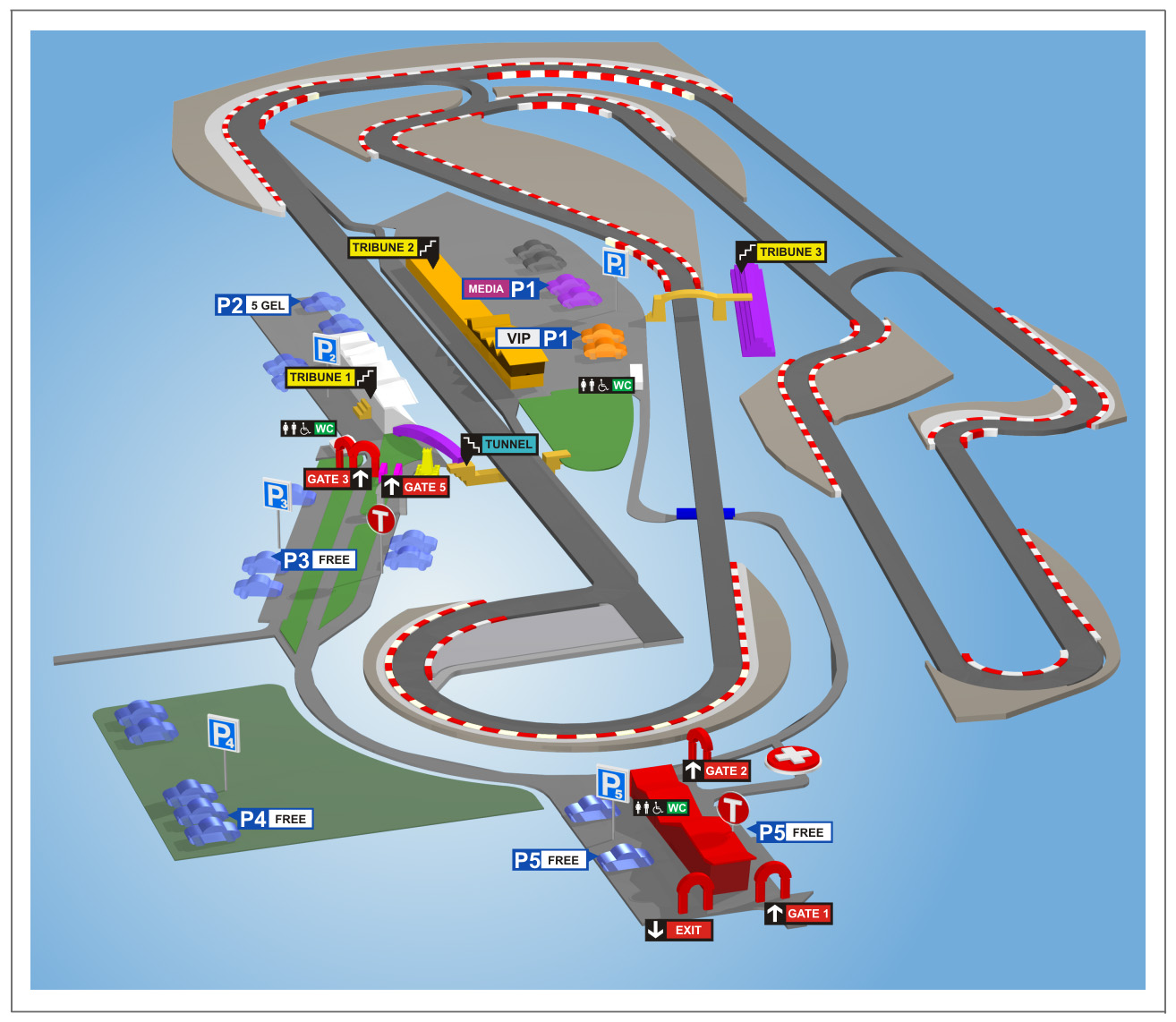 Rustavi International Motorpark 3D model